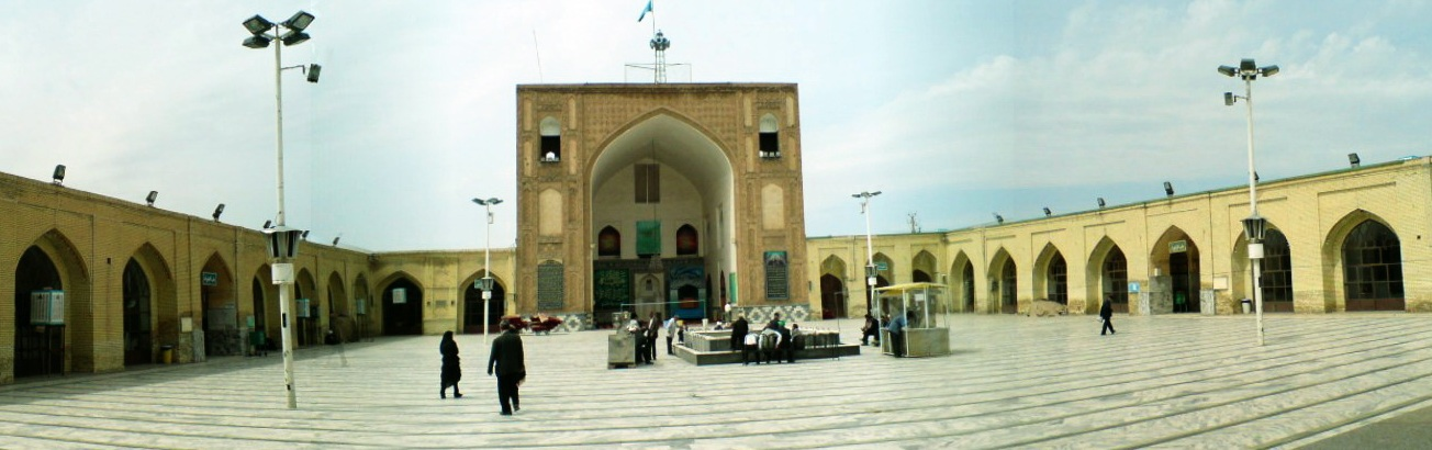 Panorama of Nishapur Jameh Mosque